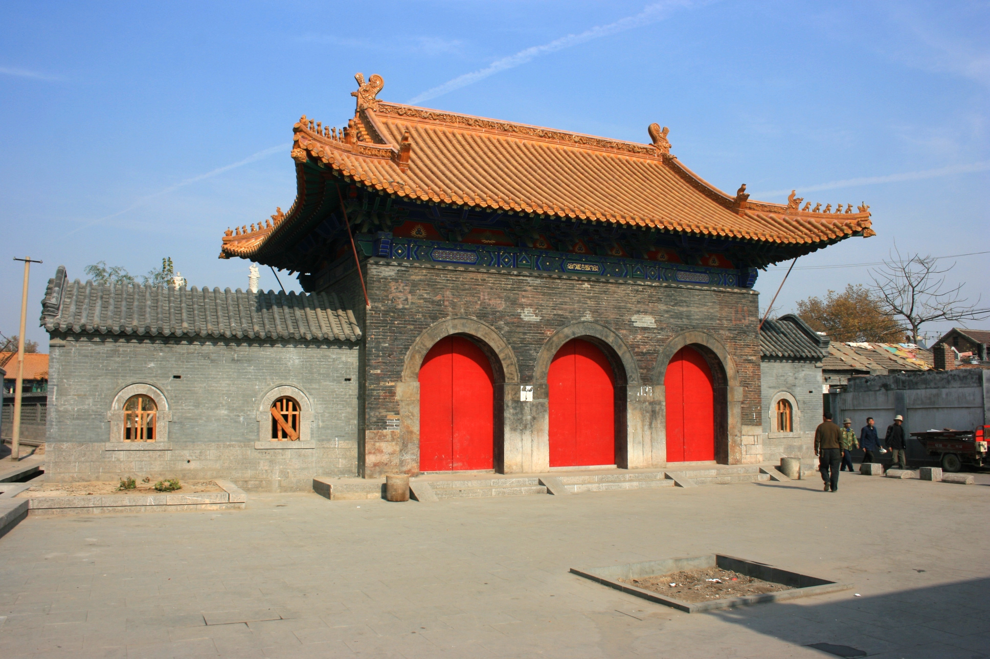 Entrance gate to the Confucian Temple in the historical center of the city of Jinan, Shandong Province, China.